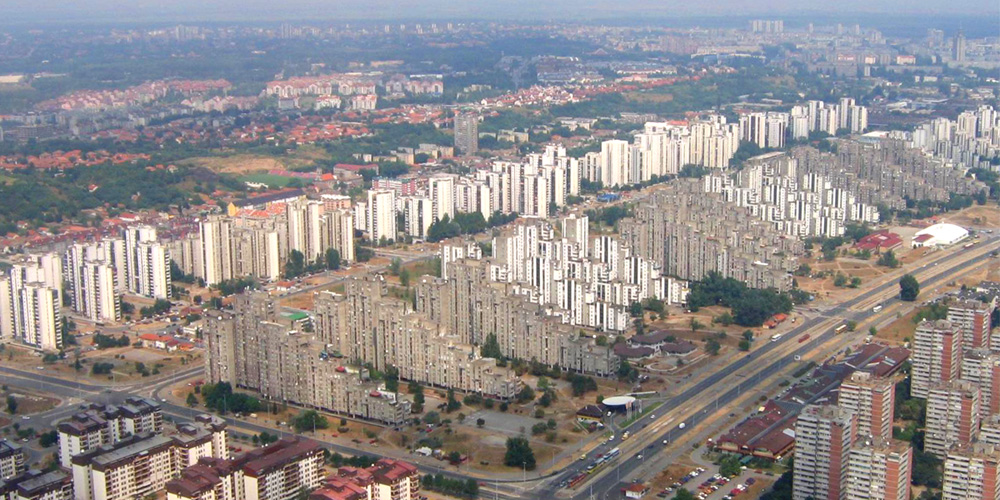 Adjusted version of File:Bežanijski Blokovi EDIT.jpg (Lošmi